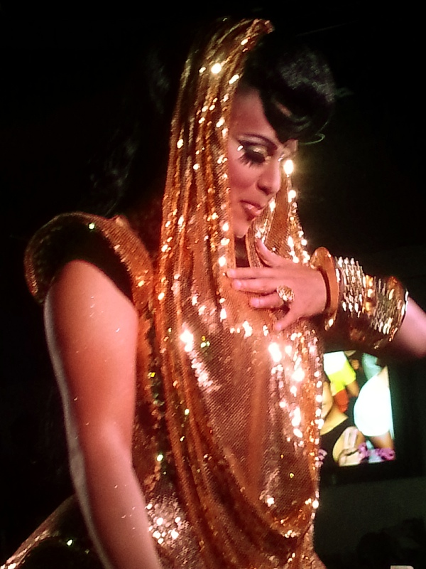 Alexis Mateo performing "Come & Get It" by Selena Gomez at the Café in San Francisco, California, United States.